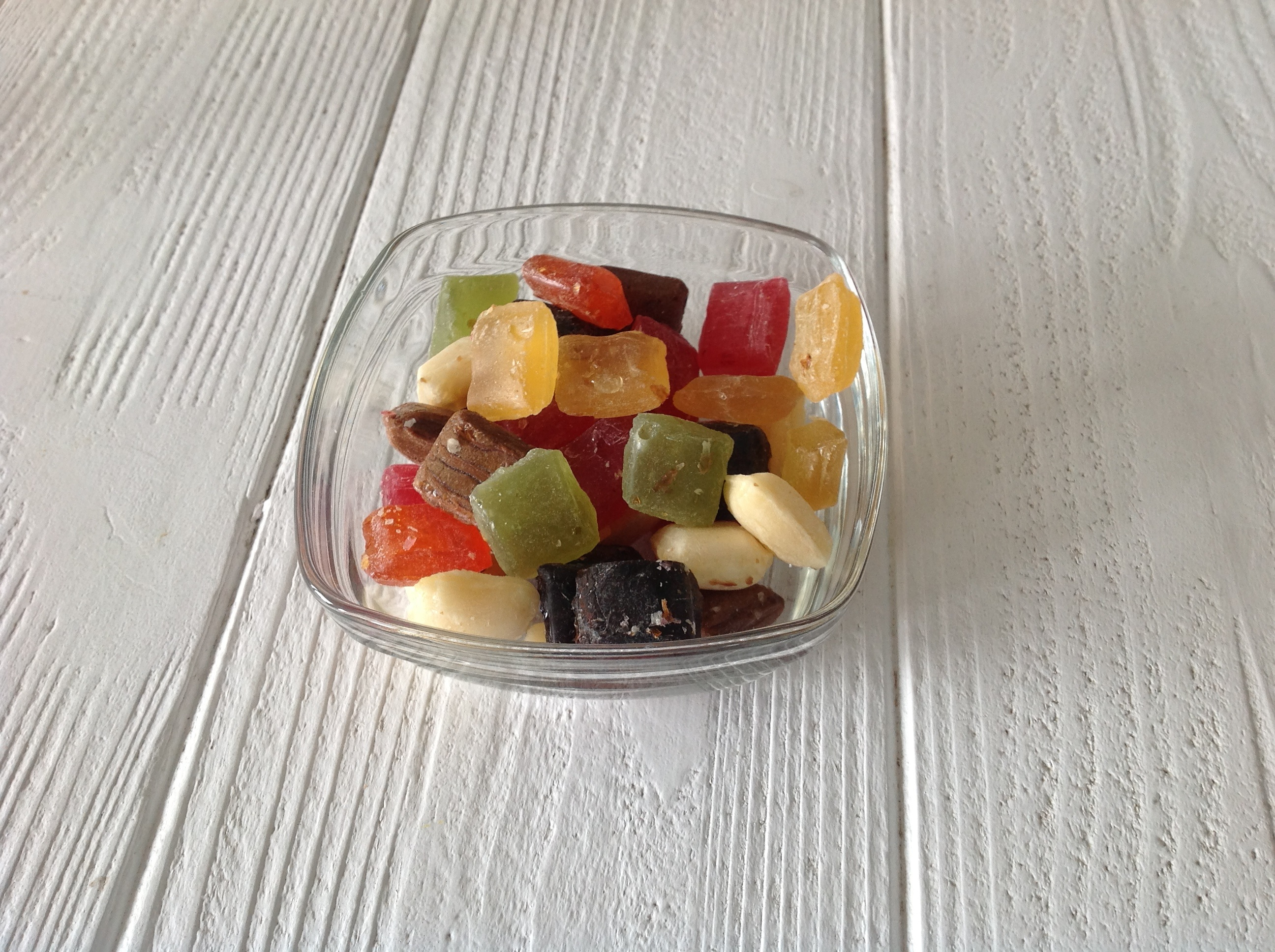 Ulevellen, Dutch traditional candy